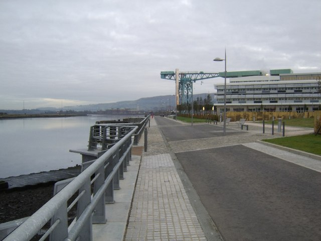 New Clydebank waterfront Showing the Titan Crane and Clydebank College.